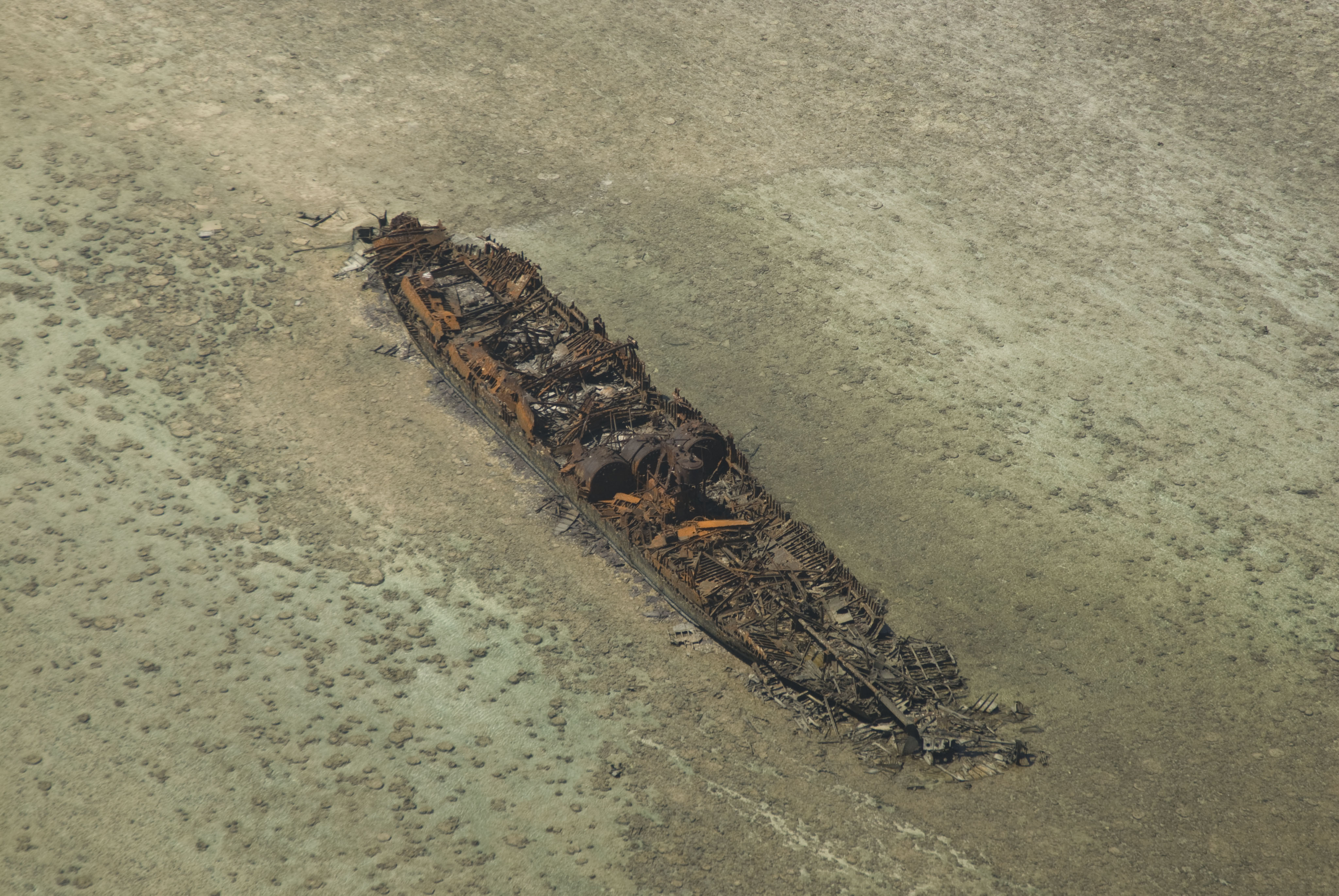 Vue aérienne du navire anglais SS Tottenham échoué (en 1911) sur les récifs de Juan de Nova island in Indian Ocean belonging to Scattered islands, within the territory of the France.